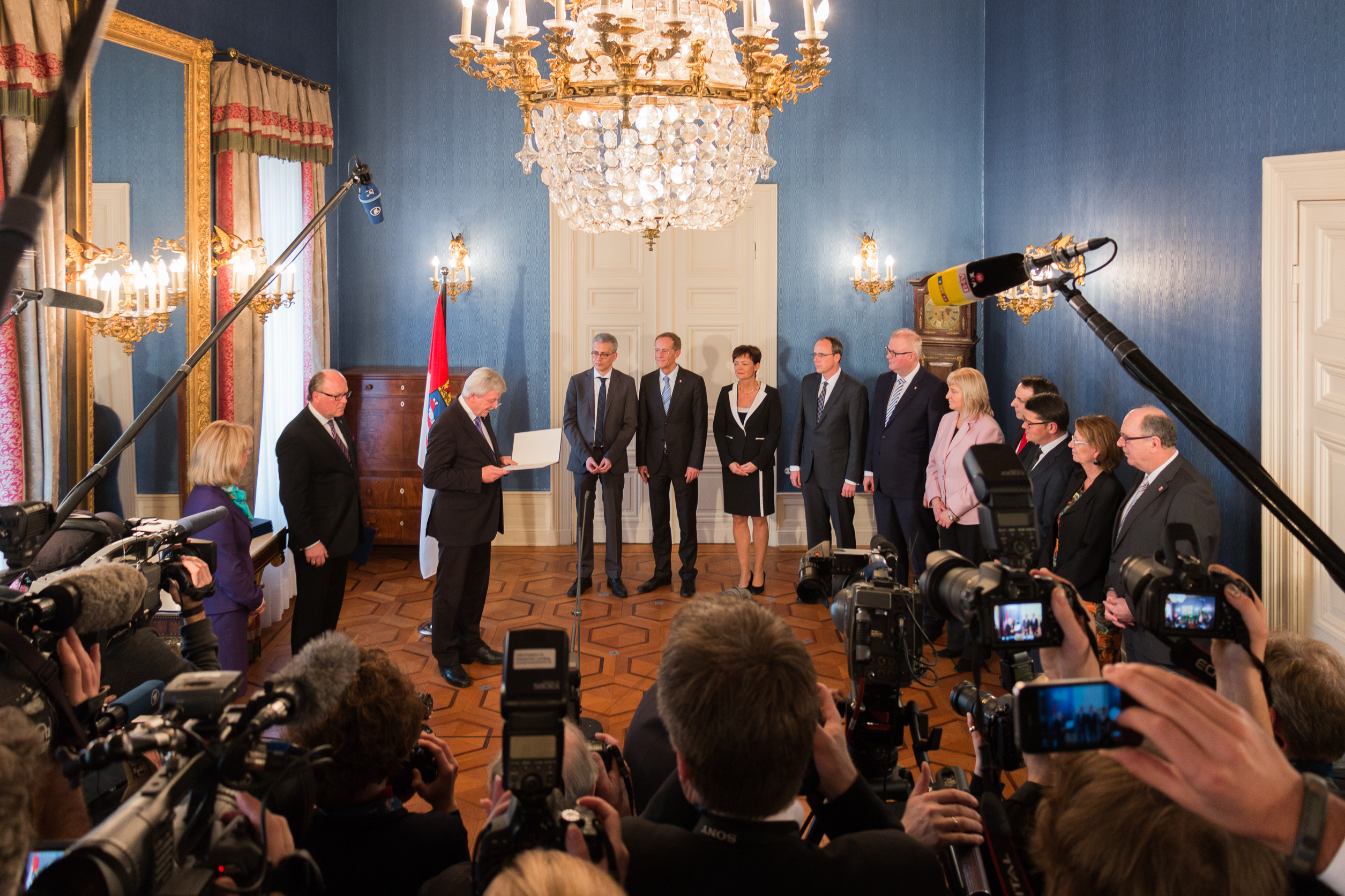 Minister-president Volker Bouffier appoints the Ministers of his second cabinet